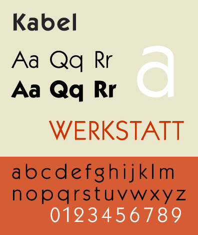 Specimen of the typeface ITC Kabel, Jim Hood